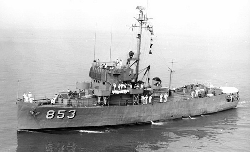 USS Amherst in the '60s.